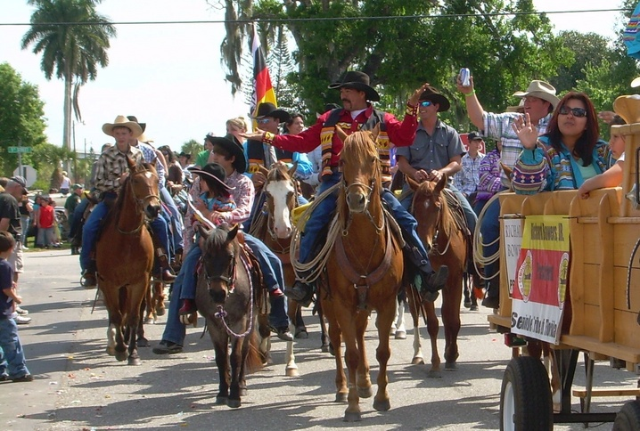 Seminole contingent in the 2008 Chalo Nitka Festival Parade.